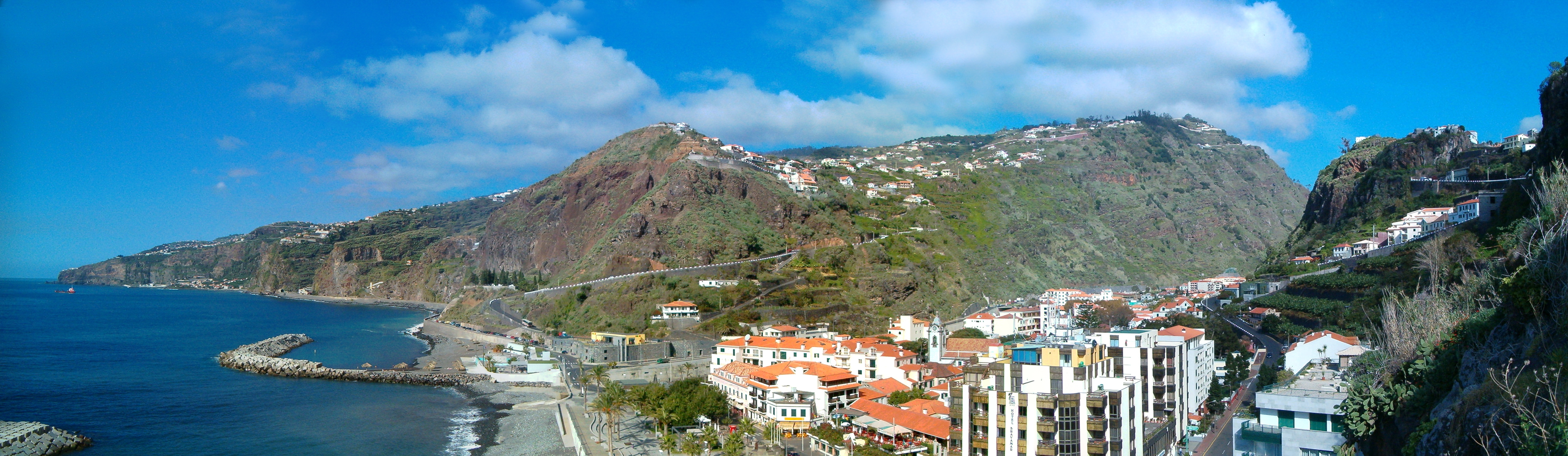 Ribeira_Brava